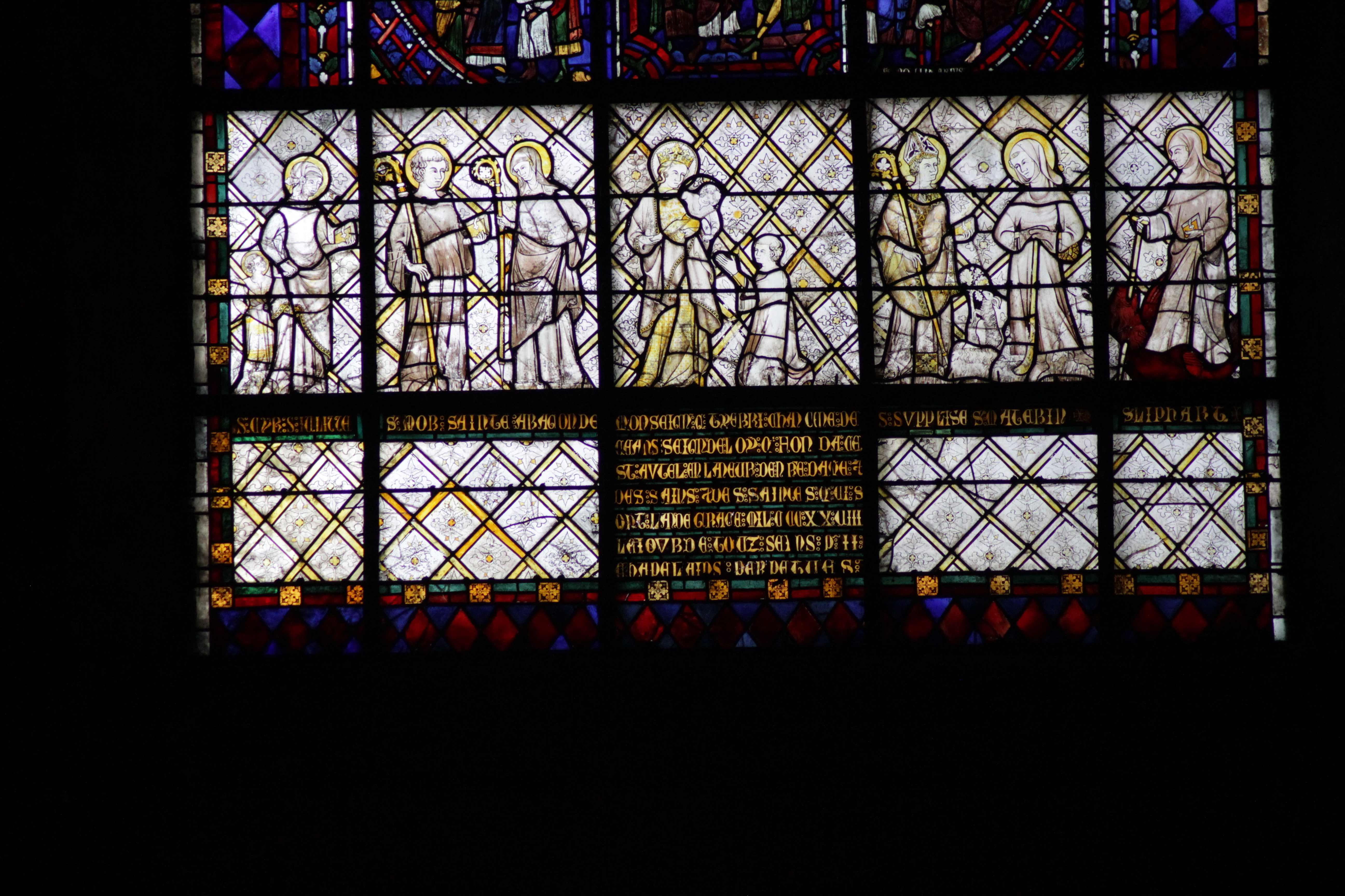 Stained window in Chartres cathedral - fragment.